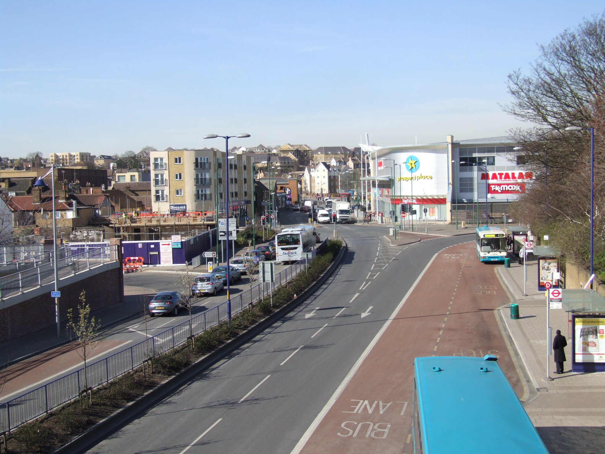 Looking West over Home Gardens A226 in Dartford. See the Fasttrack bus lanes.